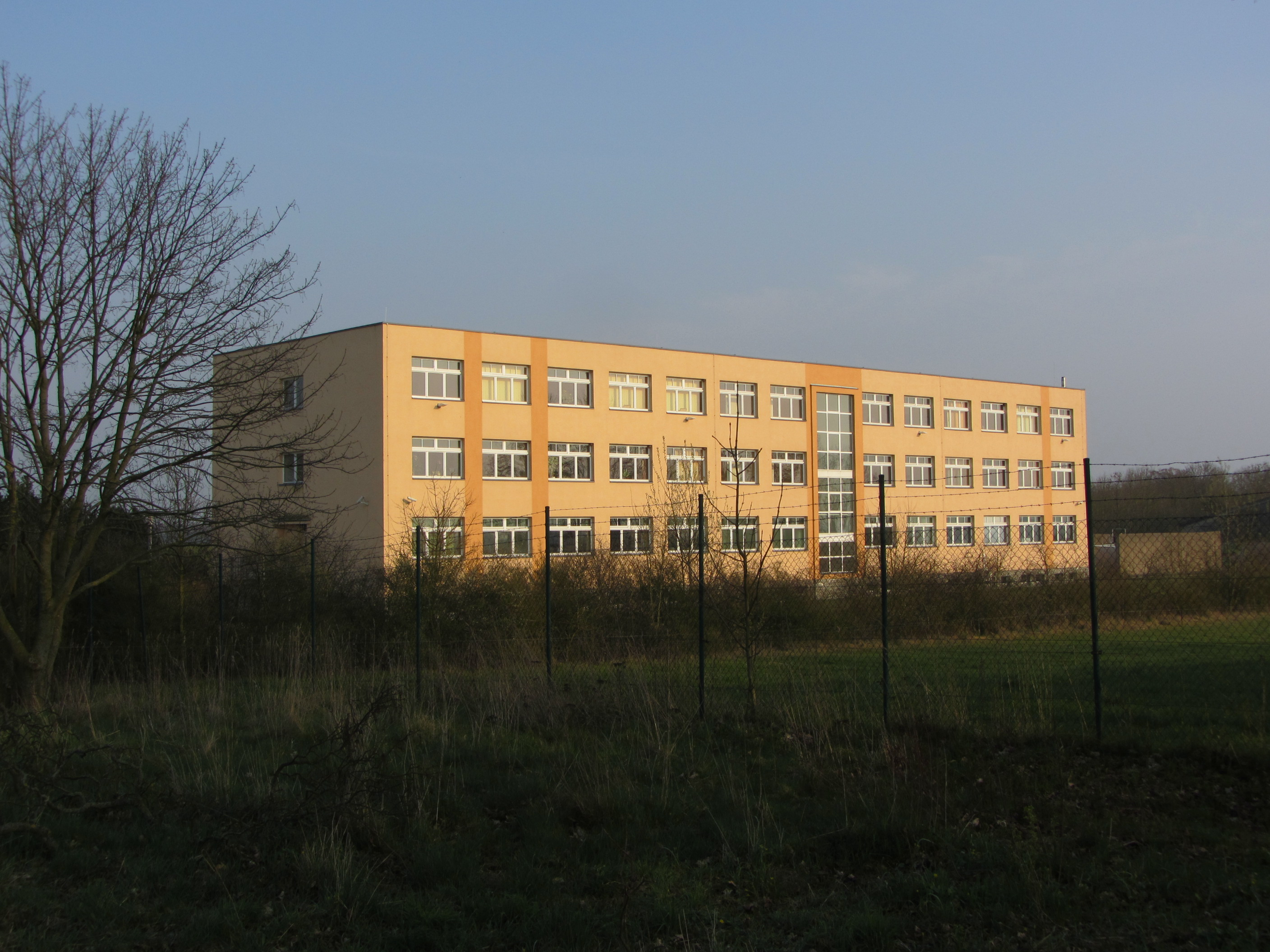 Branch Schwerin of the Federal Commissioner for the Stasi Archives, a former army barrack, in Görslow, district Ludwigslust-Parchim, Mecklenburg-Vorpommern, Germany